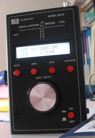 Palstar ZM-30 anntenna analyser